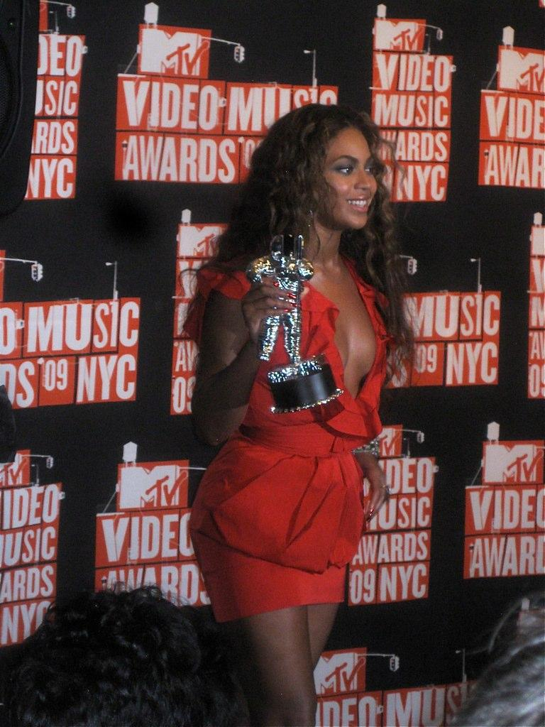 Beyoncé Knowles at the 2009 MTV Video Music.